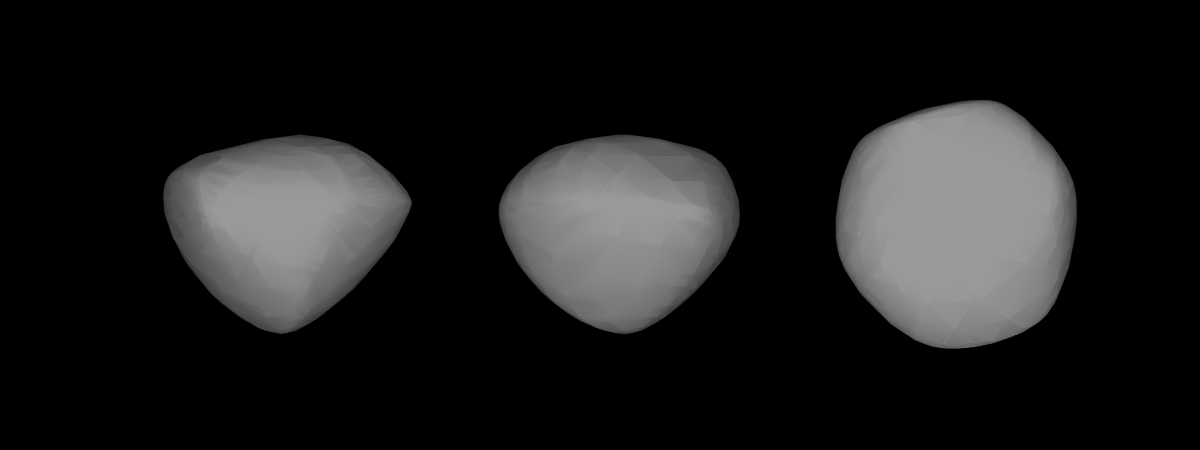 Lightcurve model of asteroid 65 Cybele.